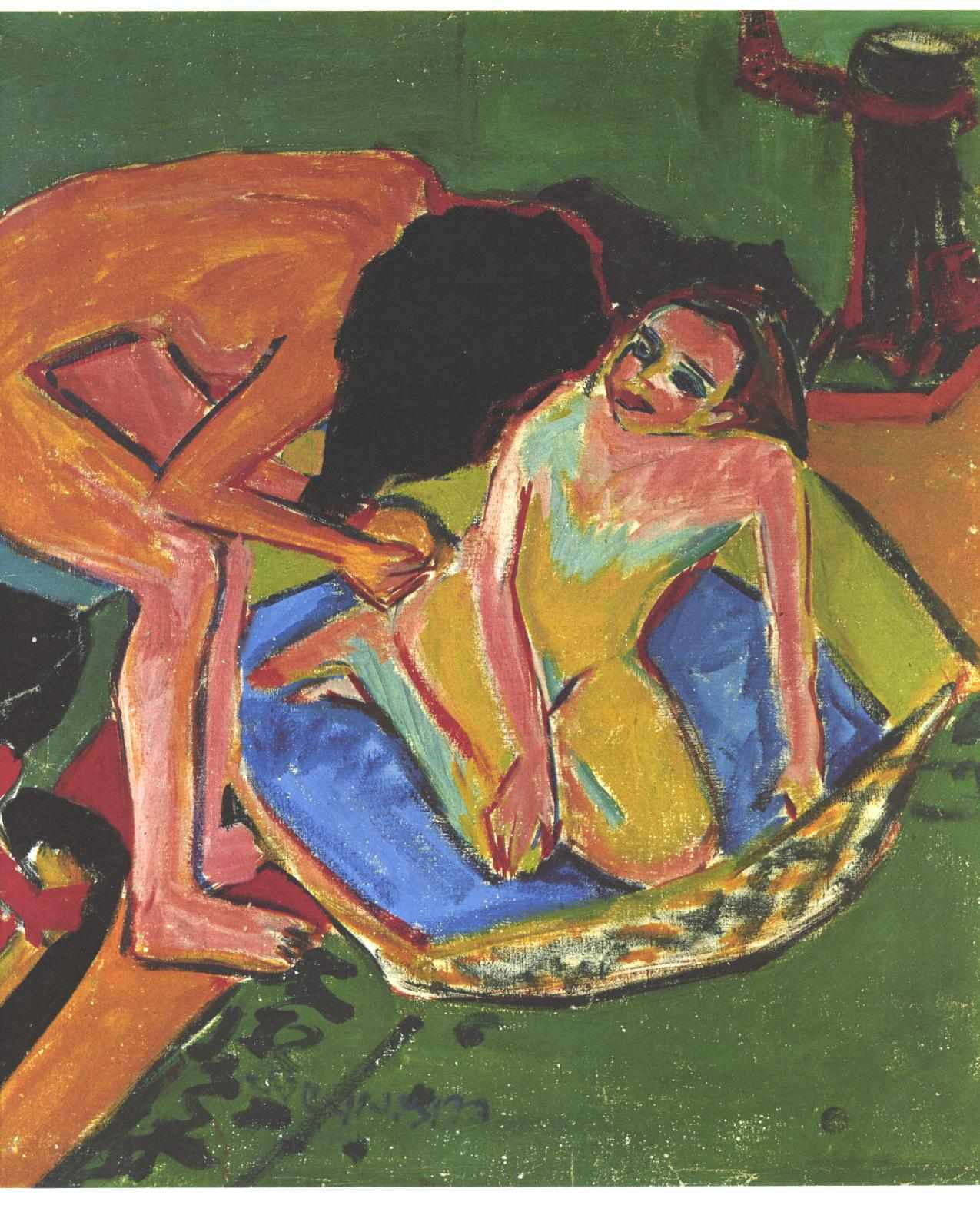 Marcella and Fränzi in the atelier